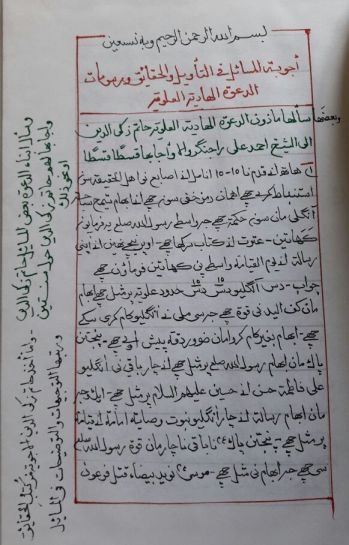 rusoomaat and customs of da'wat e alaviyah